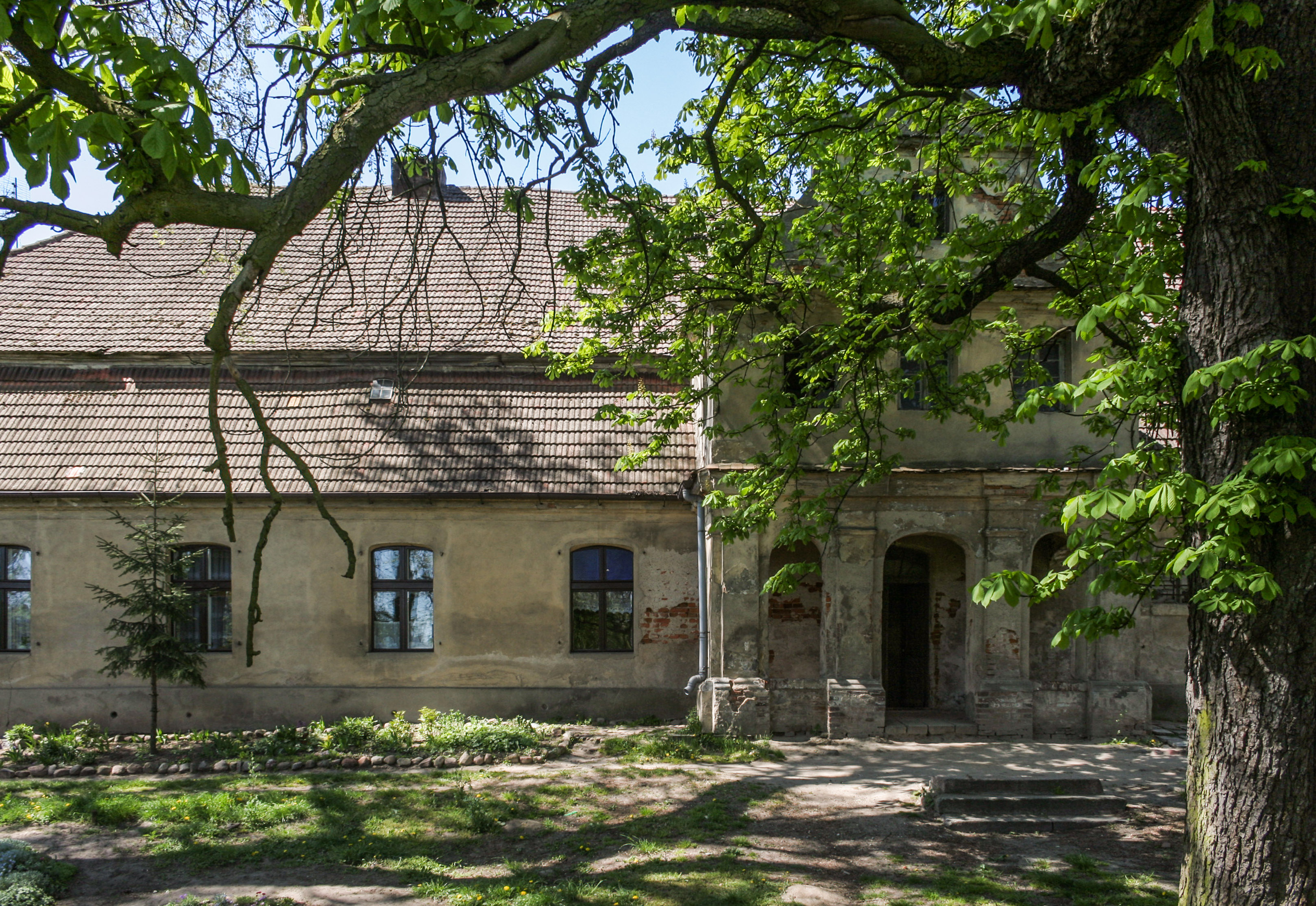 Former conventual brewery in Trzemeszno, built in 18th century.